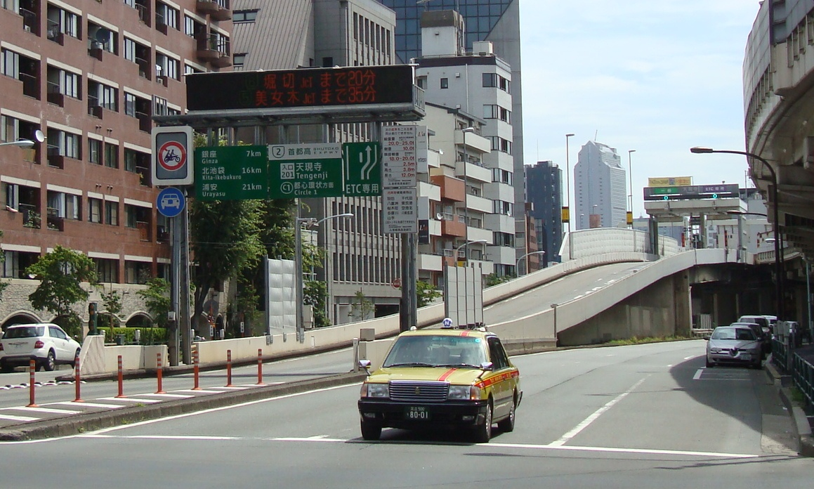 Tengenji Entrance Ramp of Shutoko (Shuto Expressway) Route 2, Minato city, Tokyo